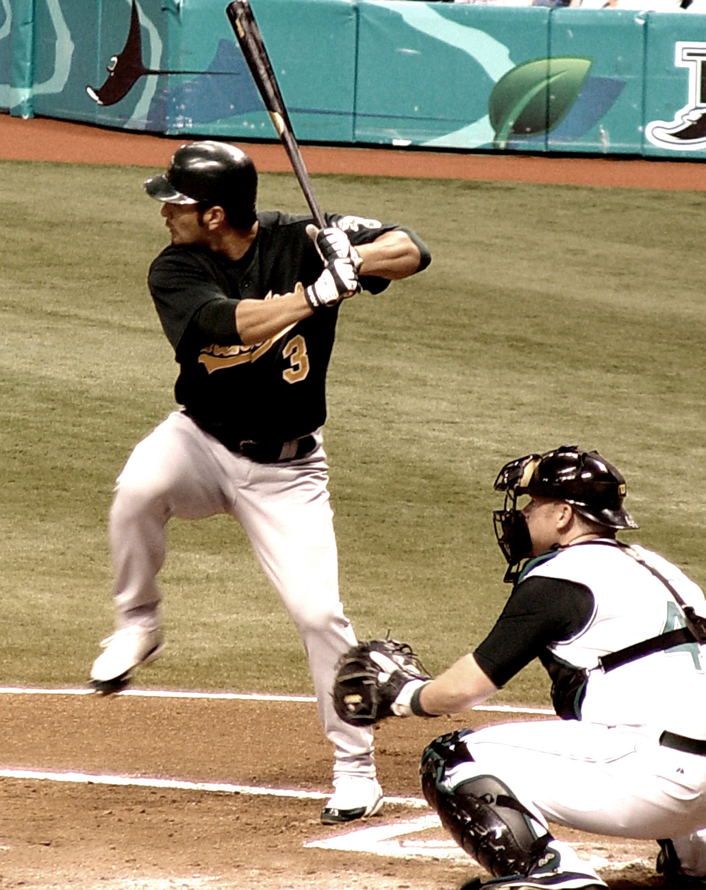 Eric Chavez about to swing, May, 2005. Photo by Googie Man 21:37, 28 May 2005 . . Googie man . . 1031×1300 (436,509 bytes)